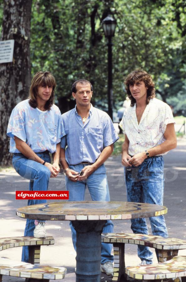 Argentine players Ricardo Gareca, Carlos Ischia and José Luis Falcioni (fltr) during their tenure on Colombian club América de Cali.